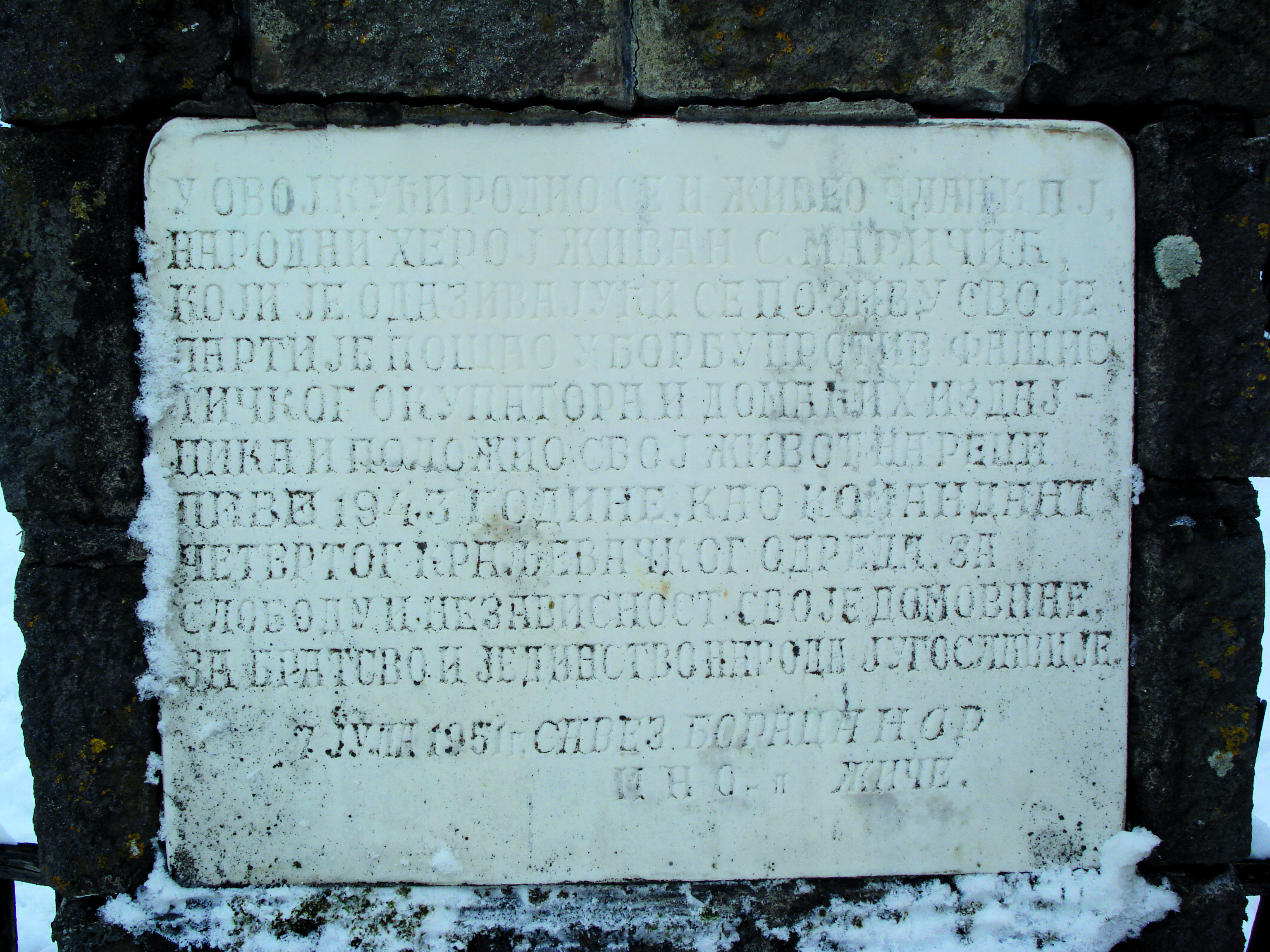 Memorial plaque on house of national hero Živan Maričić in Kraljevo